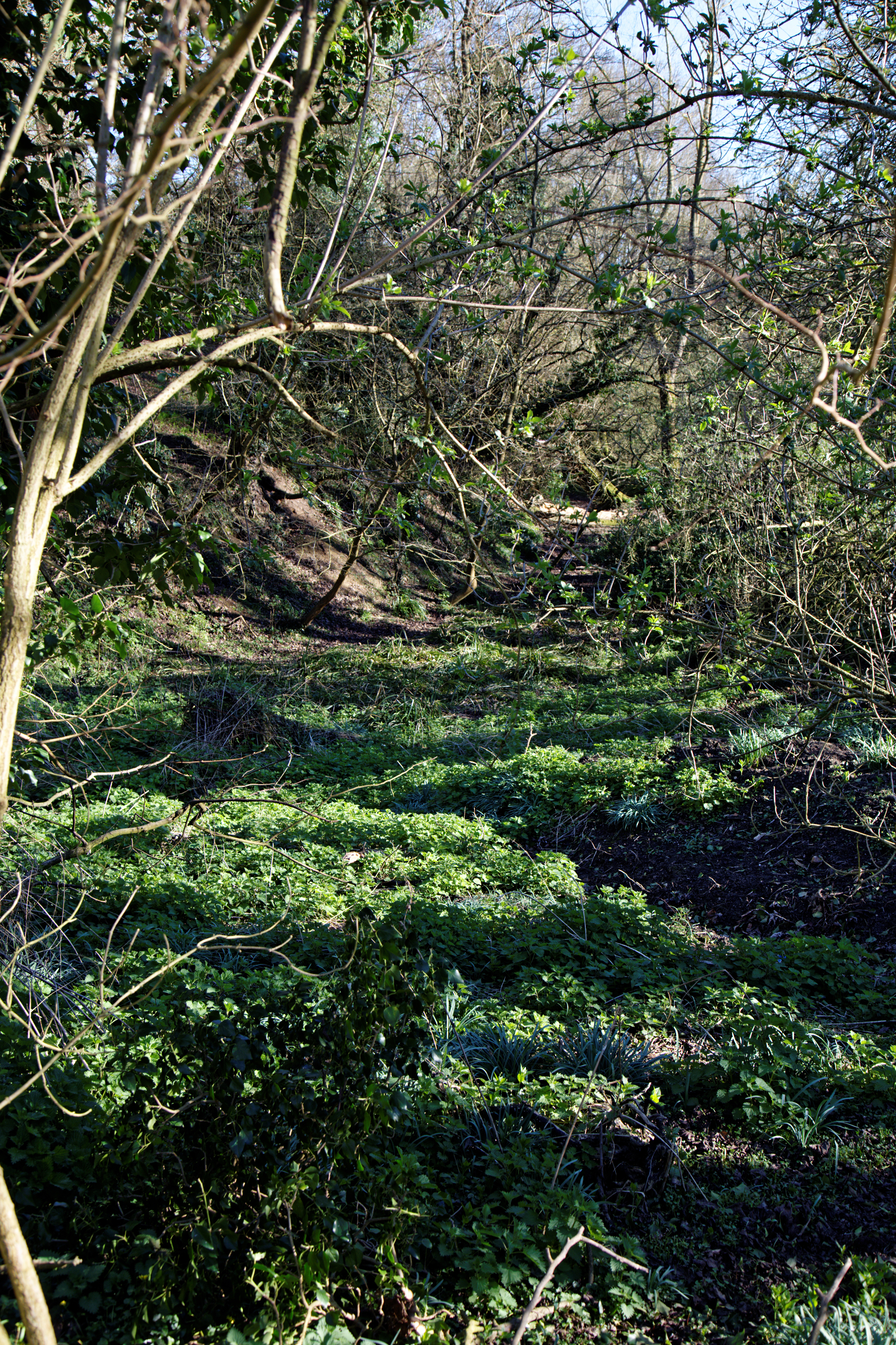 The overgrown dry moat ditch to Great Canfield Castle earthworks in Great Canfield village, Essex, England.Camera: Canon EOS 6D with Canon EF 24-105mm F4L IS USM lens.Software: large RAW file lens-corrected, optimized and downsized with DxO OpticsPro 11 Elite, Viewpoint 2, and Adobe Photoshop CS2.